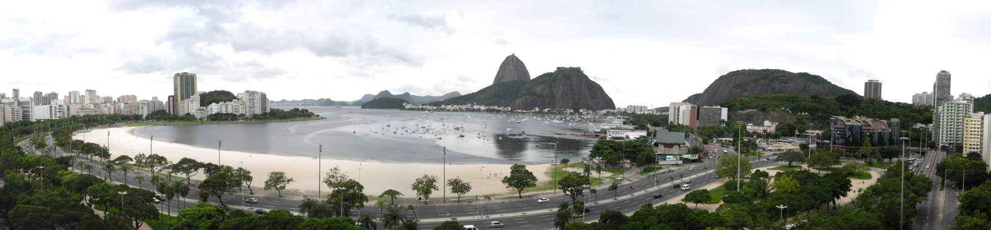 Botafogo cove, Rio de Janeiro, Brasil